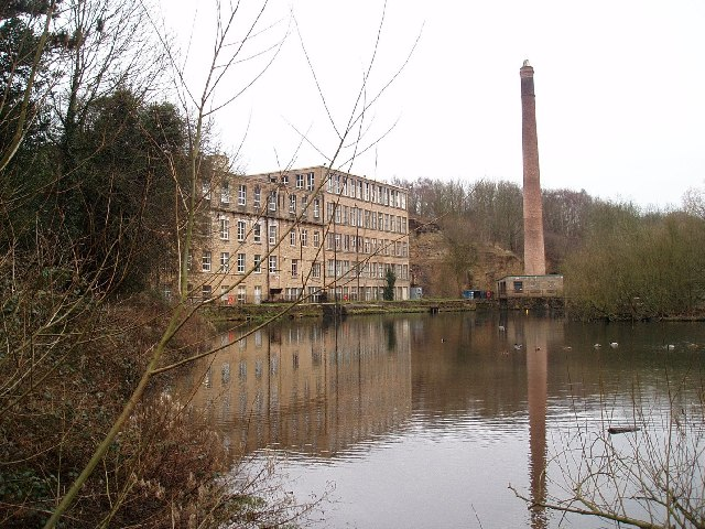 Pleasley Mills. The four mills from the 18th century were built to manufacture cotton and silk. Other buildings included a school, library, chapel and workers houses.